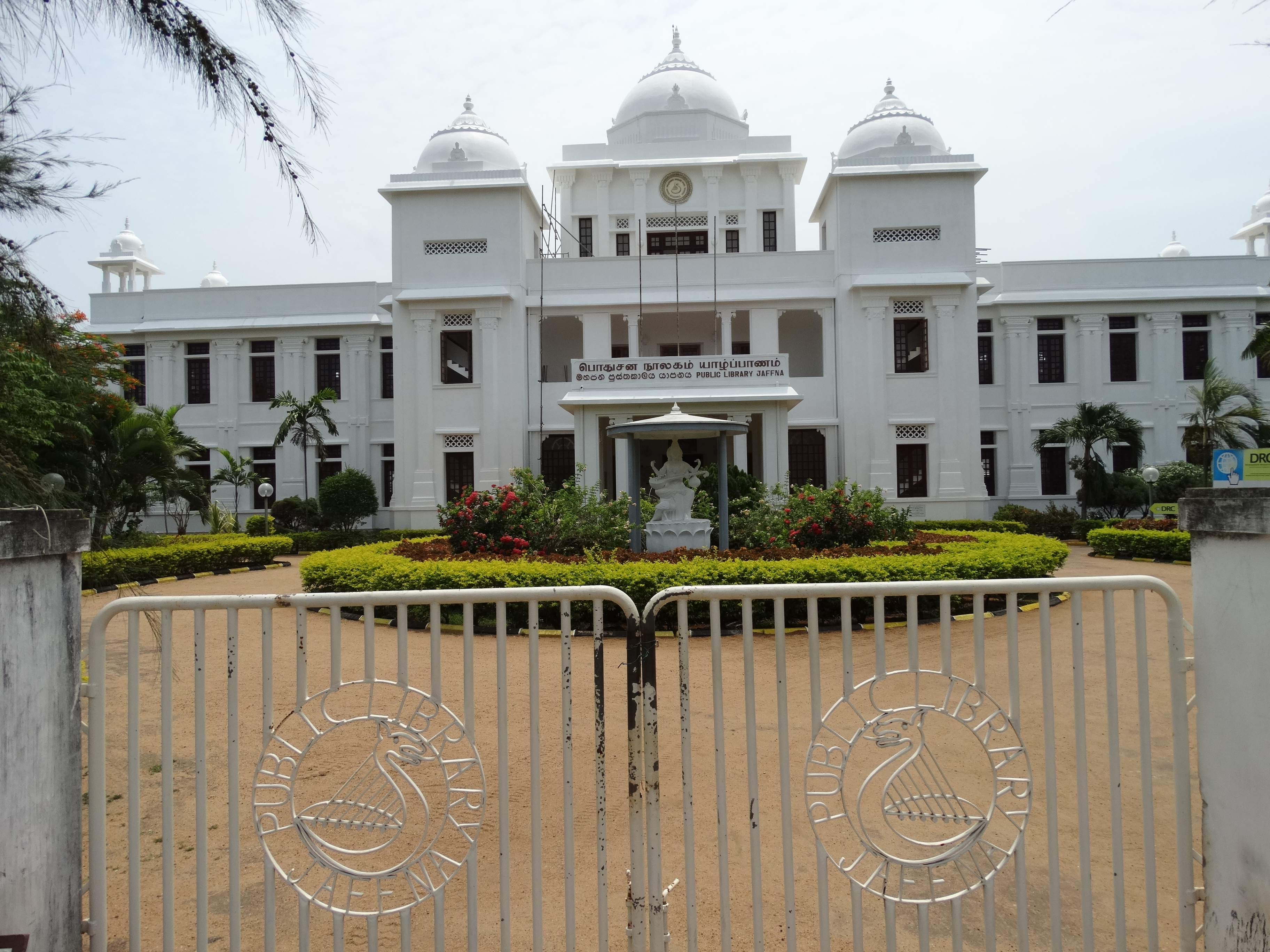 Facade of Public Library - Jaffna - Sri Lanka